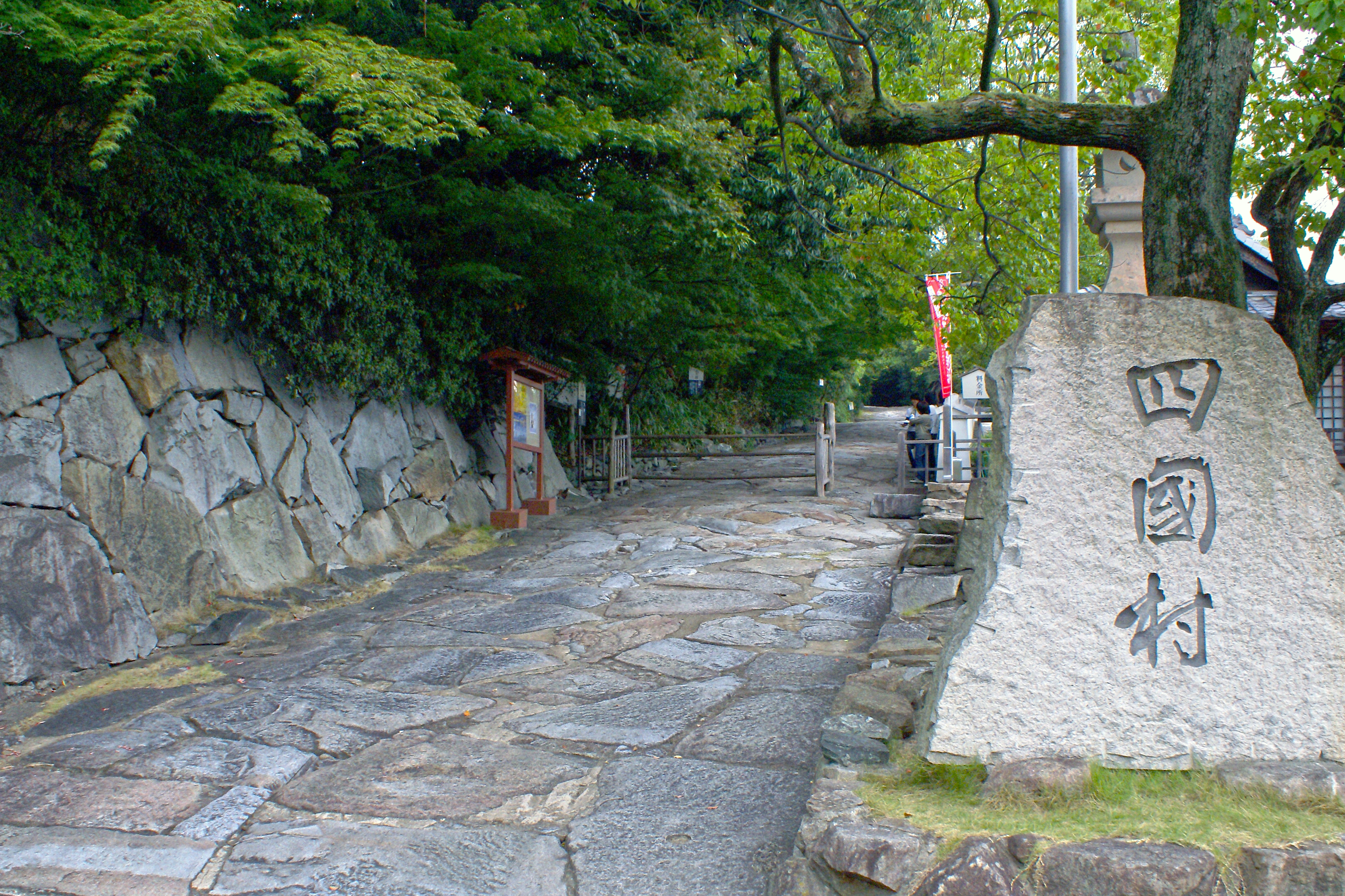 Shikoku Mura in Takamatsu, Kagawa Prefecture, Japan